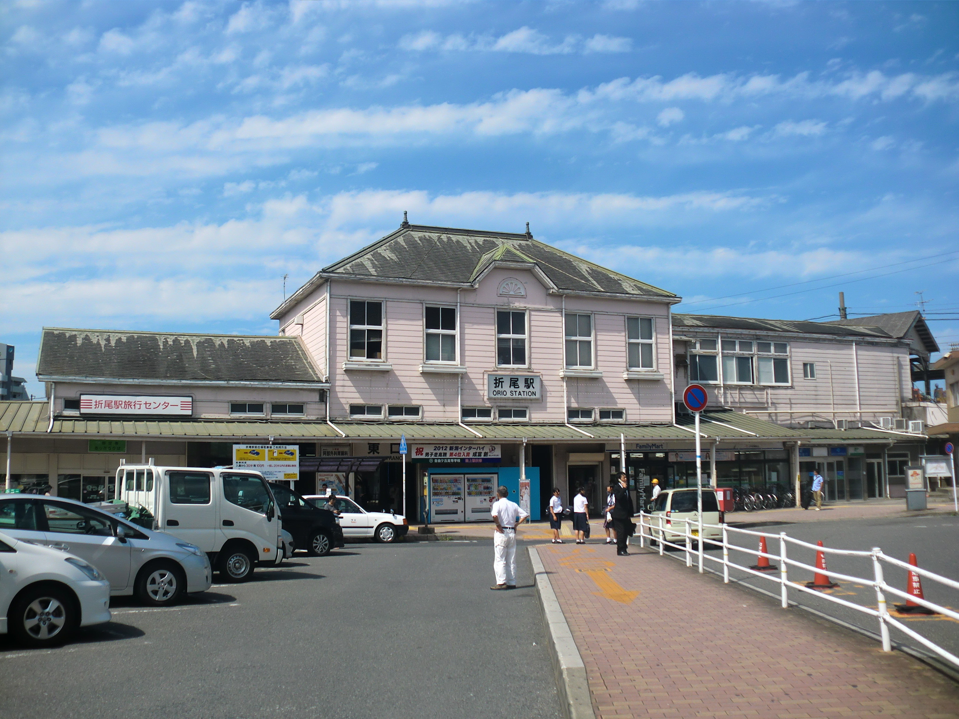 Main station building of Orio Station in Kitakyushu, Fukuoka Prefecture